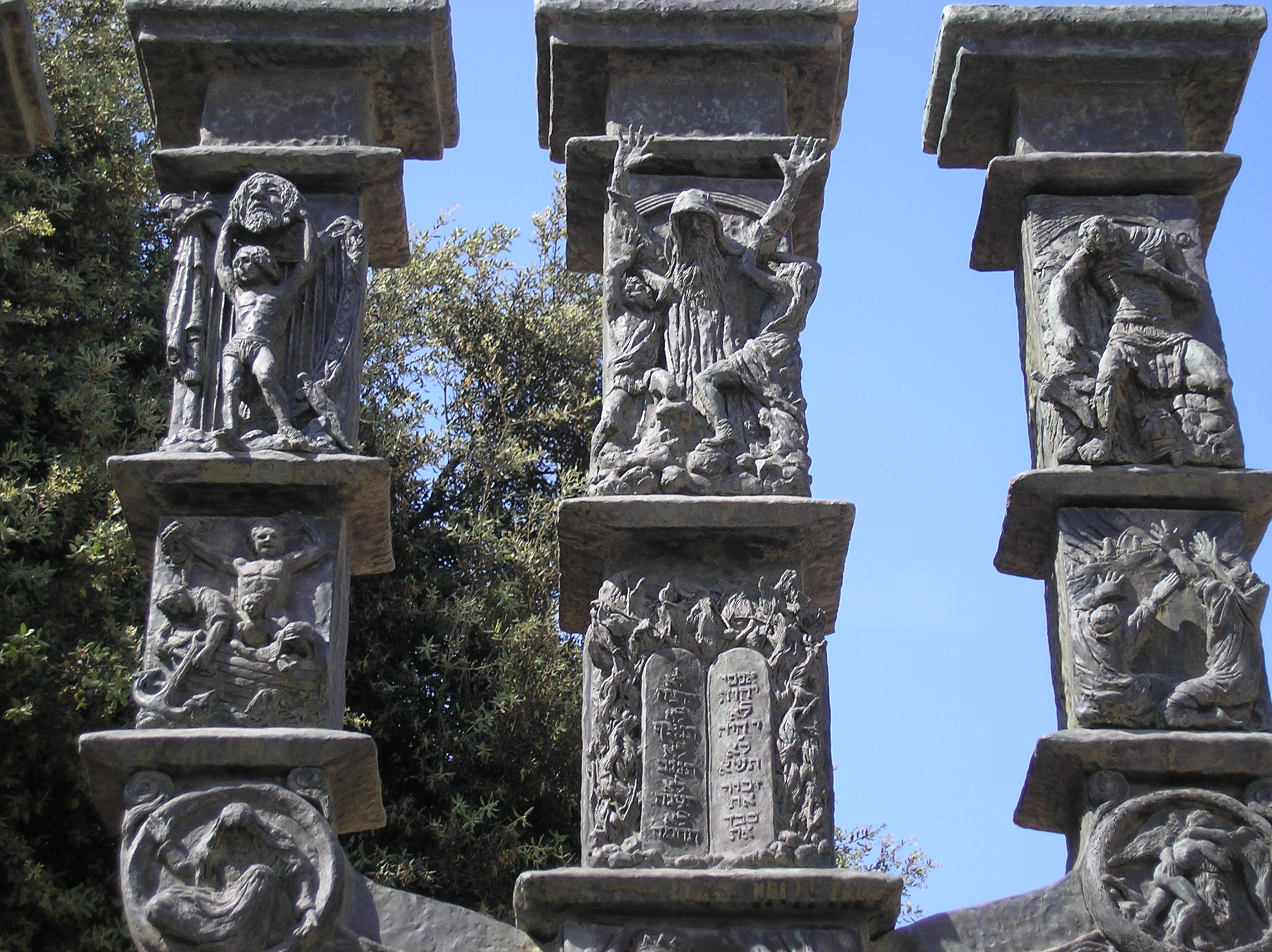 The Knesset Menorah, Jerusalem (detail - Centre of the Menorah)